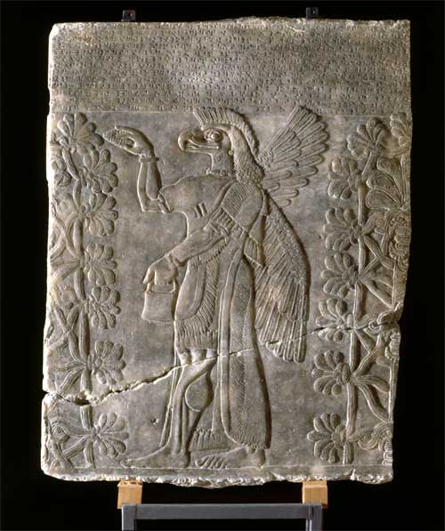 Assyrian relief (inv.no. AS2) from the North-West palace in Nimrud (c. 883-859 BC.). On display at the The National Museum of Denmark, Dept. of Classical and Near Eastern Antiquities.